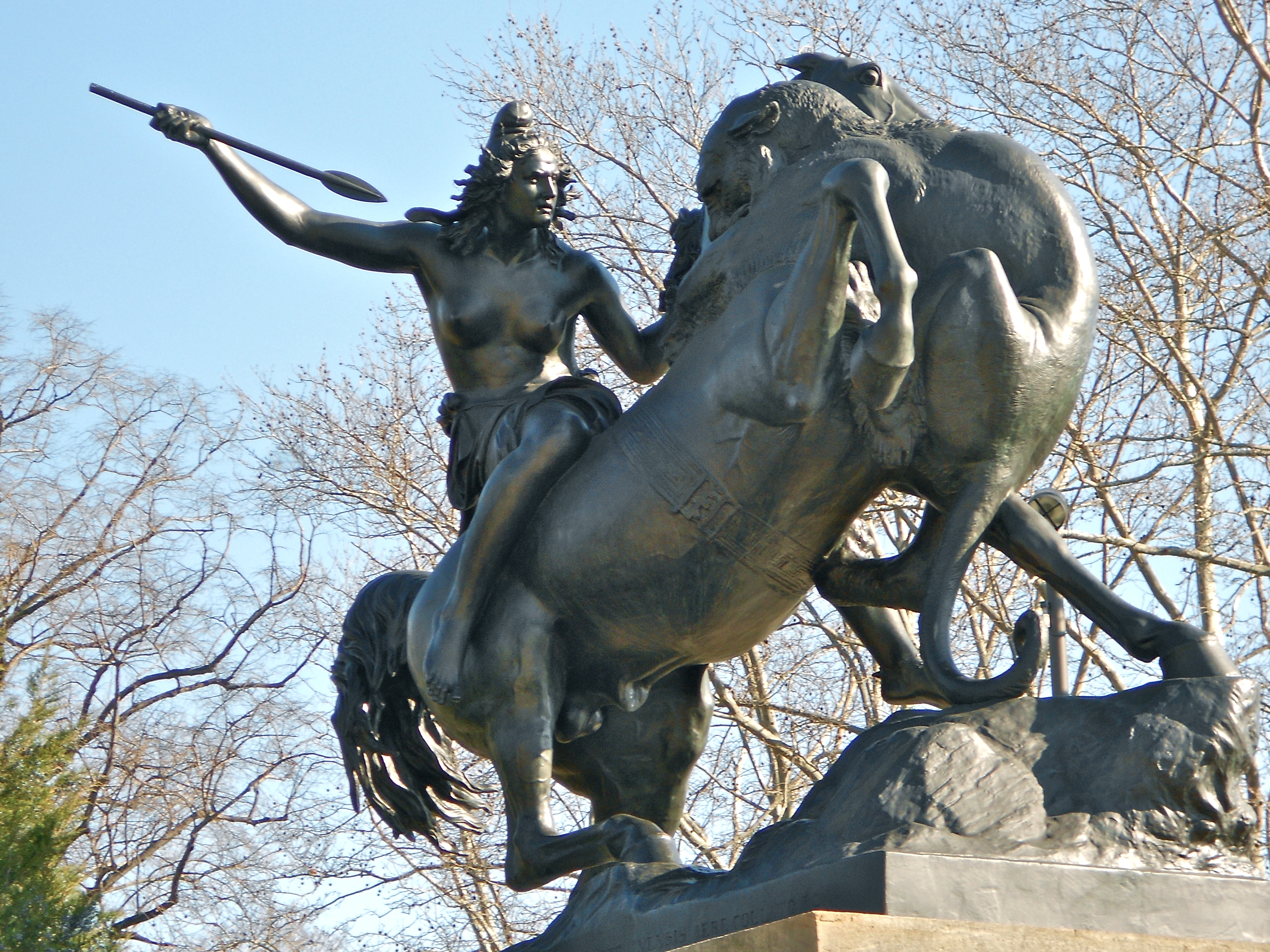 Amazon sculture by August Kiss (1802 - 1865), 1830s in front of Philadelphia Museum of Art